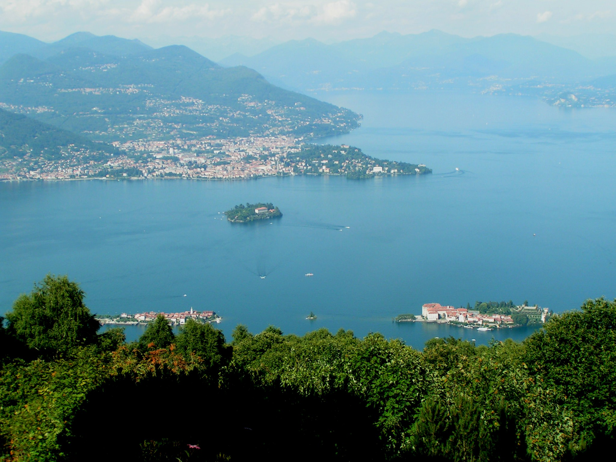 Lake Maggiore: View from Alpino to Isola Madre, Isola dei Pescatori, Isola Bella and Verbania